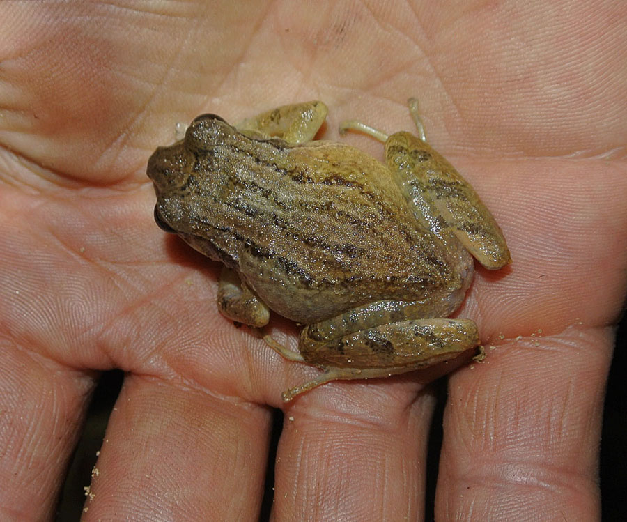 One of several species of this genus in the El Dorador Reserve, northeastern Colombia. In context at